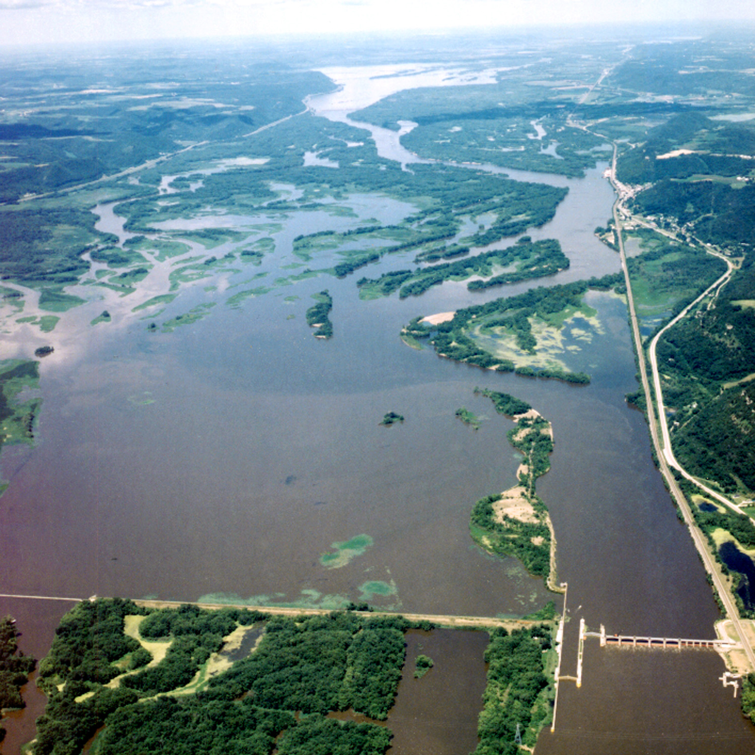 Aerial view of Lock and Dam #5A on the Mississippi River near Fountain City, Wisconsin. The view is upriver to the northwest.